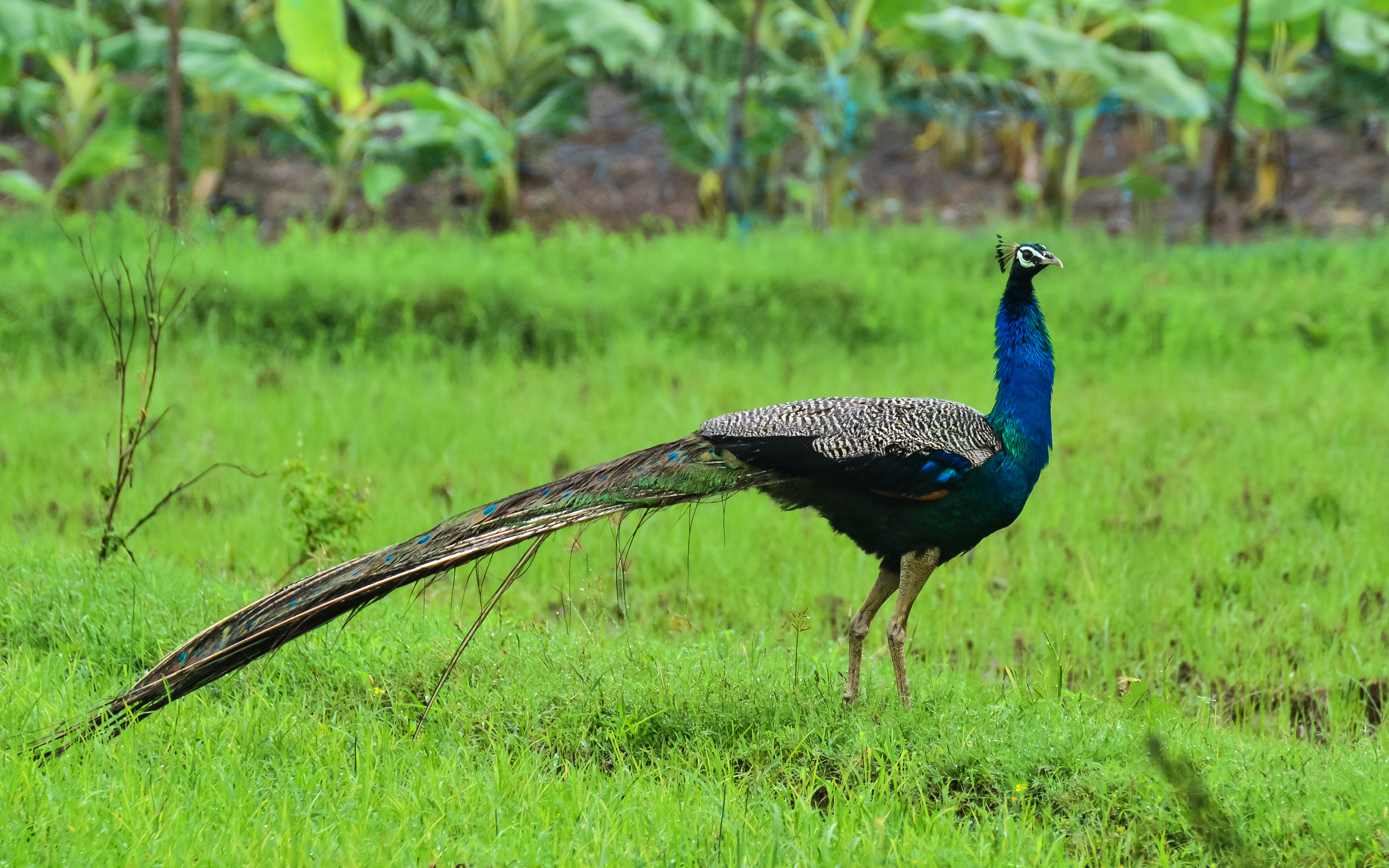 Indian peafowl / Blue Peafowl (Pavo cristatus) - Male at Rajavallipuram, near Tirunelveli, Tamil Nadu, India